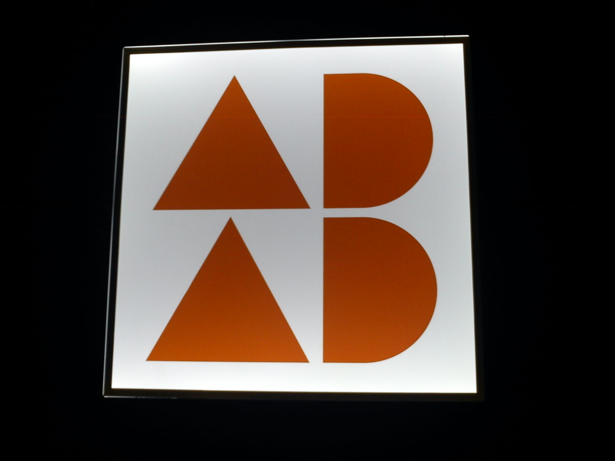 AAB, Aarhus logo.